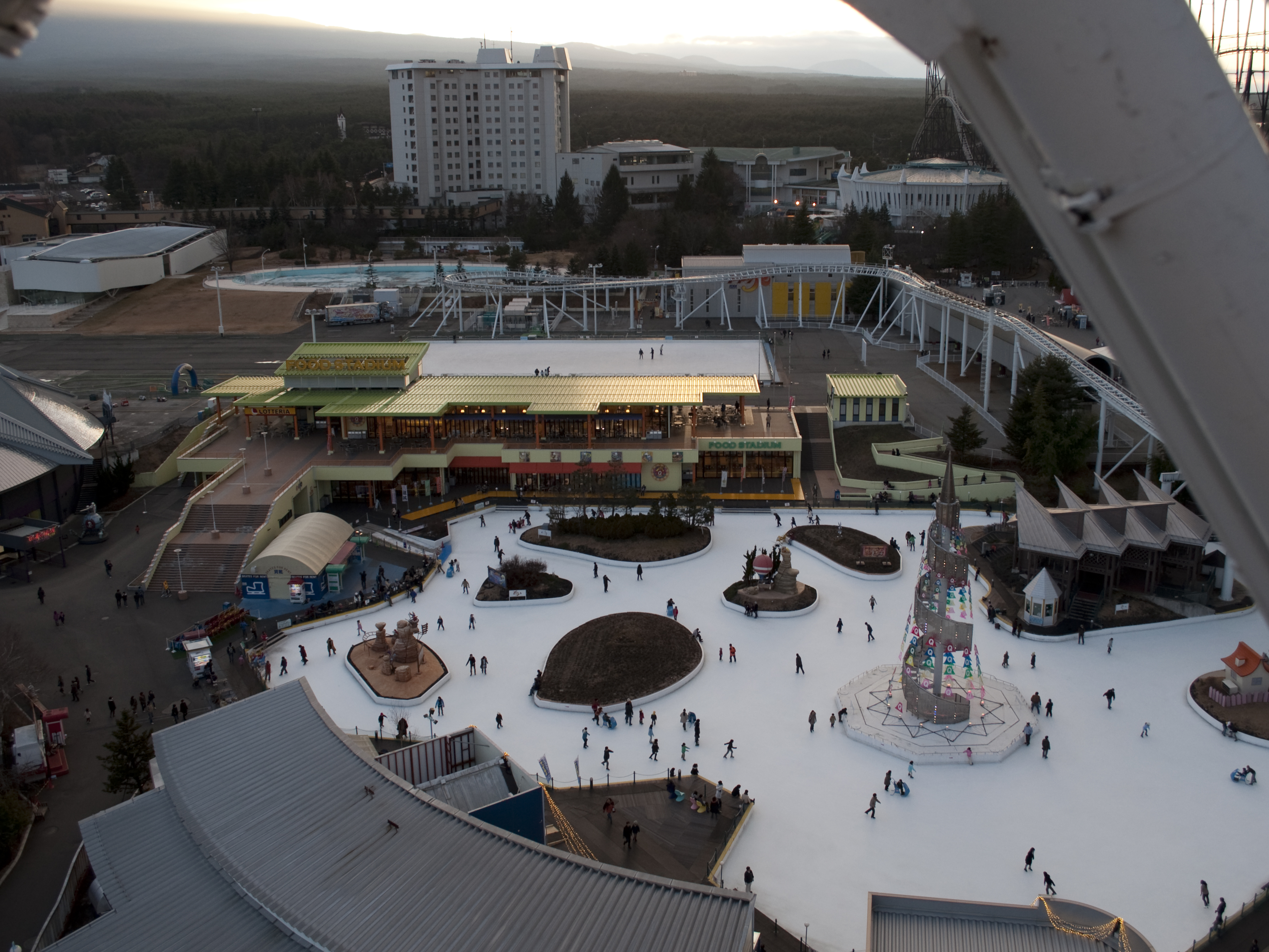 View of Fuji-Q Highland from the Ferris wheel.